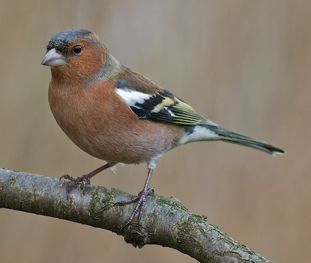 A male of the Common Finch, Fringilla coelebs, photograph taken in a garden in Rozenburg, The Netherlands, winter 2011-2012